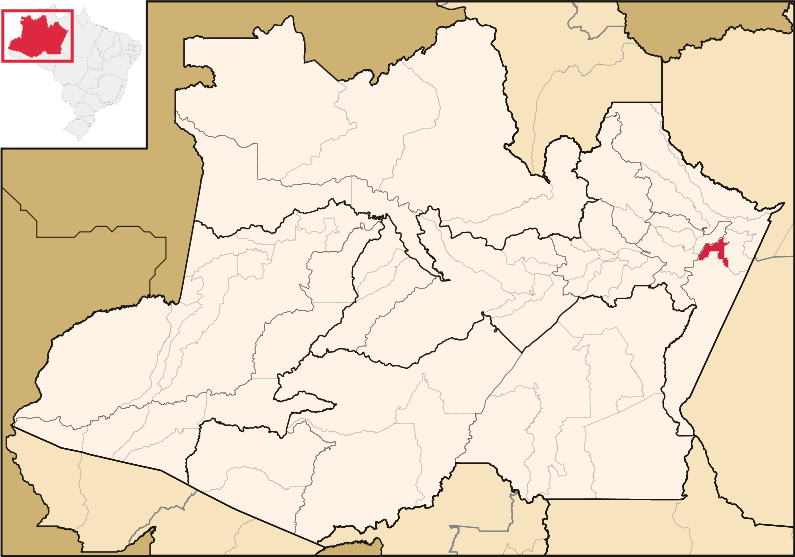 Localization of Boa Vista do Ramos in Amazonas state, Brazil.